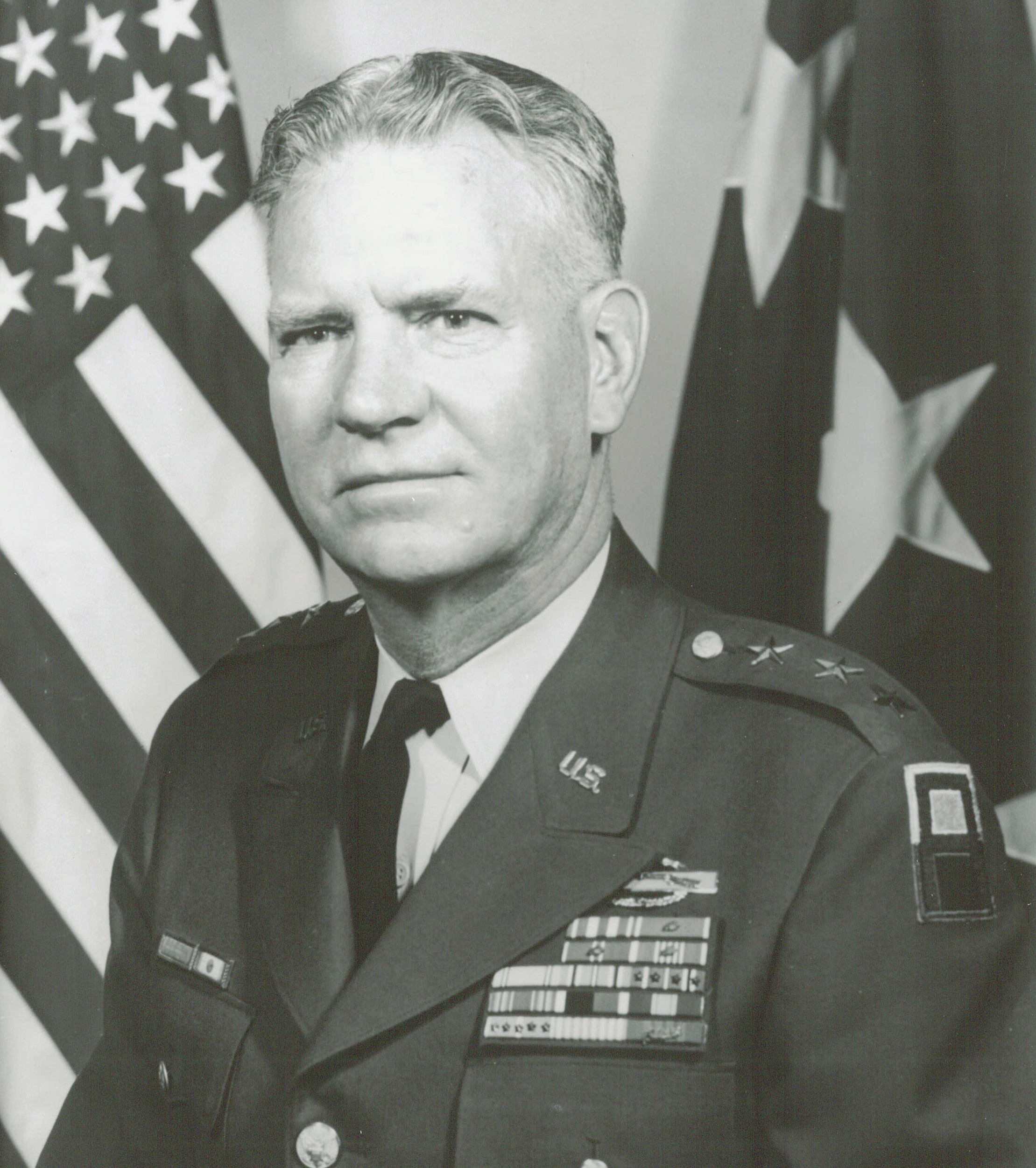 Service photograph of General William F. Train